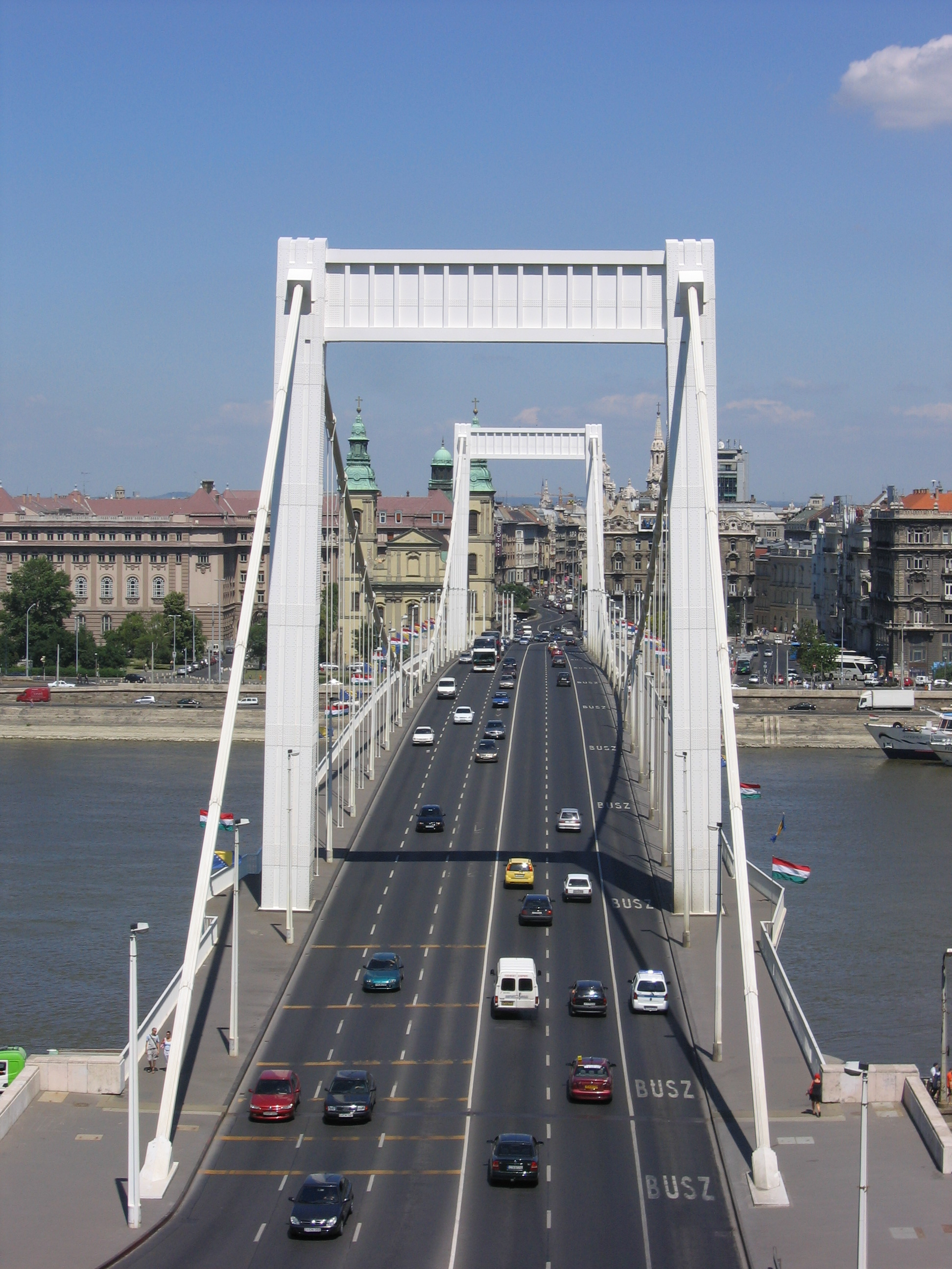 View on Budapest